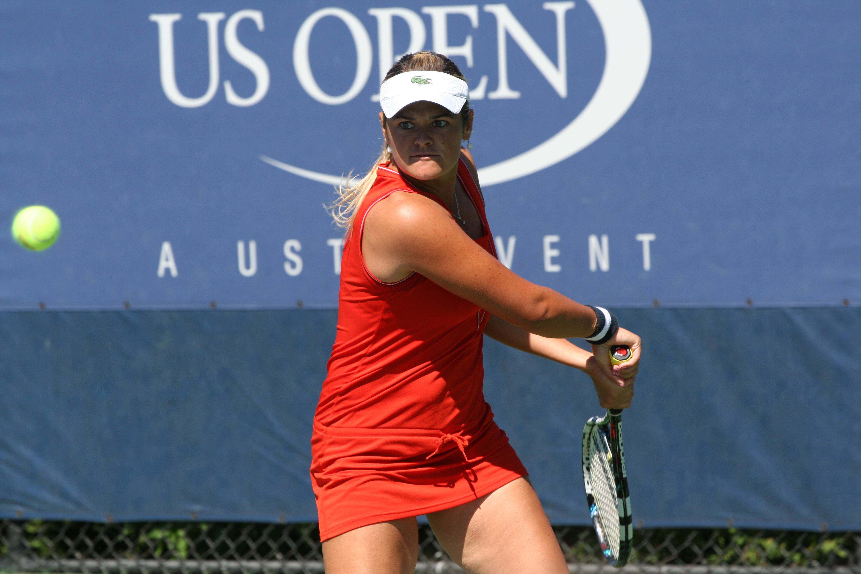 Aleksandra Wozniak at the 2012 US Open